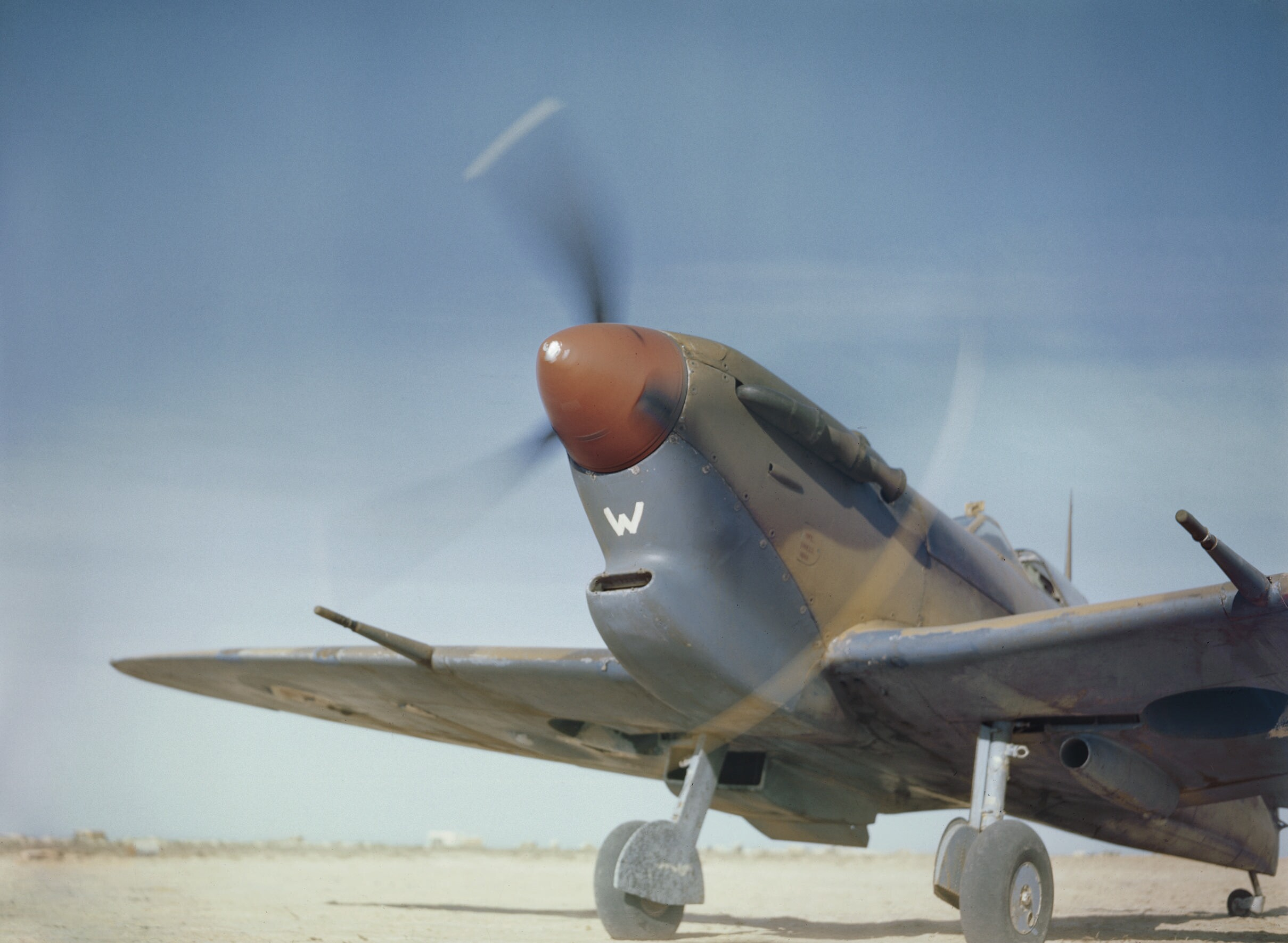 Air Officer Commanding Malta, Air Vice Marshal Sir Keith Park, in the cockpit of his personal Supermarine Spitfire V before his ceremonial take-off at Malta's new aerodrome at Safi, May 1943. Air Officer Commanding Malta, Air Vice Marshal Keith Park in the cockpit of his personal Supermarine Spitfire V before his ceremonial take-off at Malta's new aerodrome at Safi.